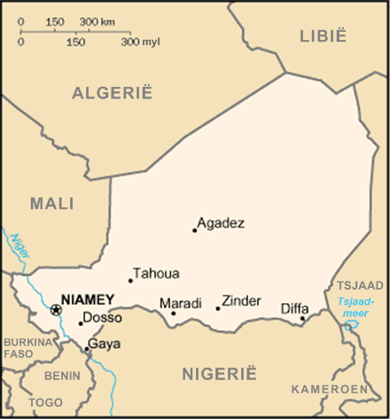 An Afrikaans map of Niger.